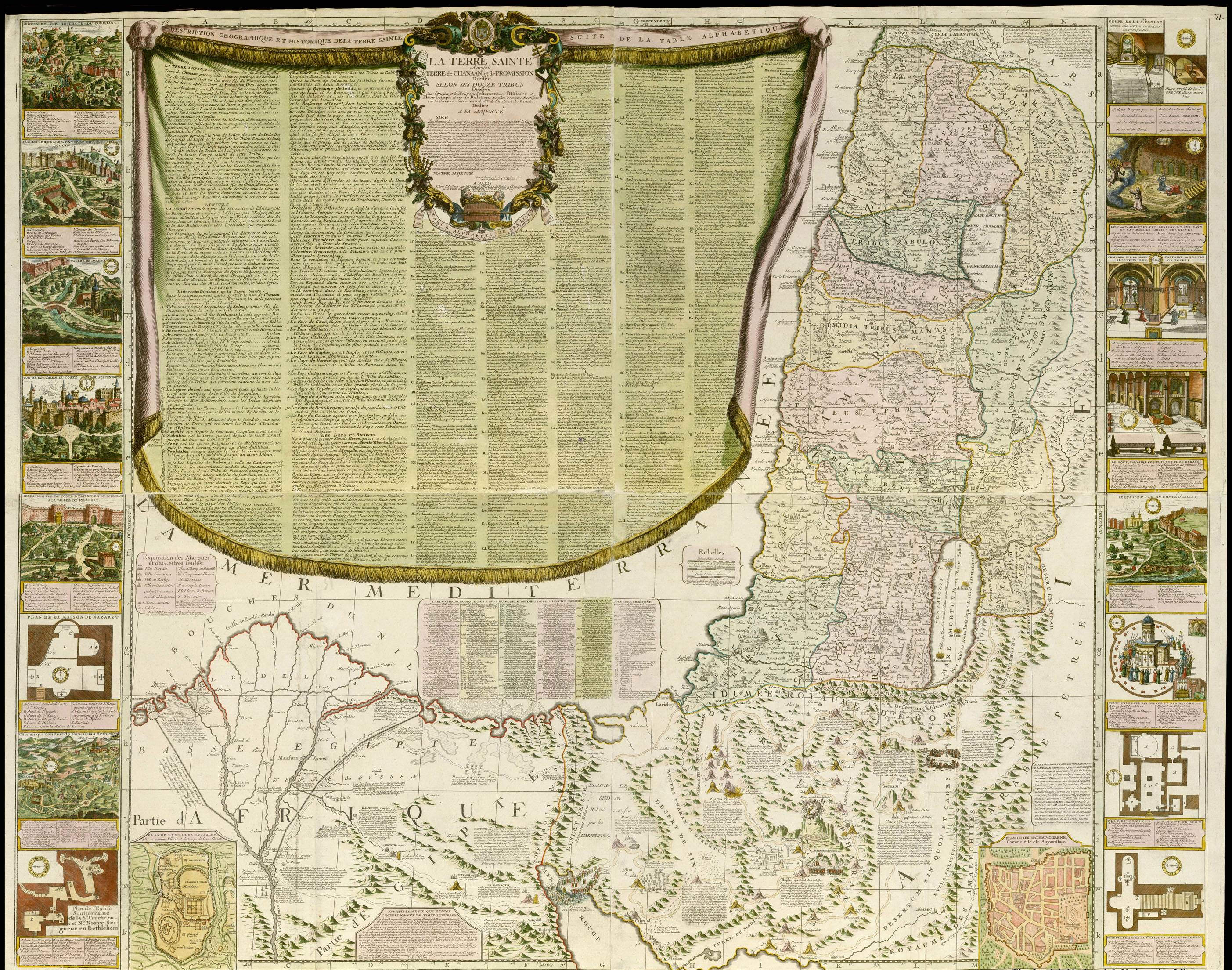 Nolin Map